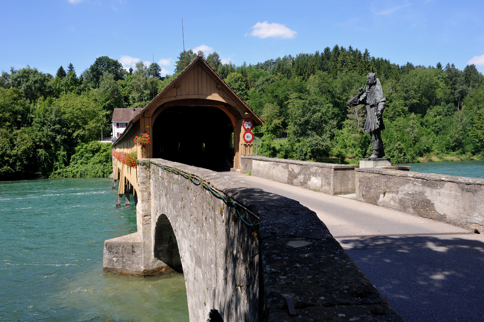 Bridge over the river Rhine Rheinau–Altenburg; Zurich, Switzerland and Baden-Württemberg, Germany.